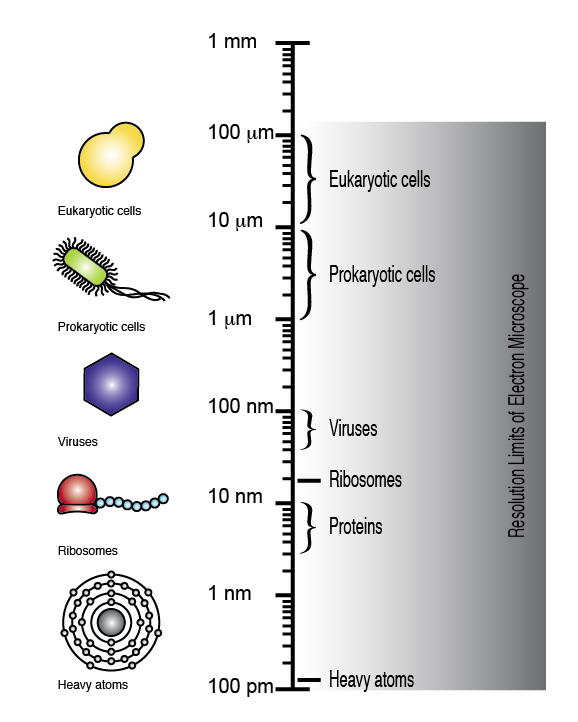 Resolution Limits of the Electron Microscope